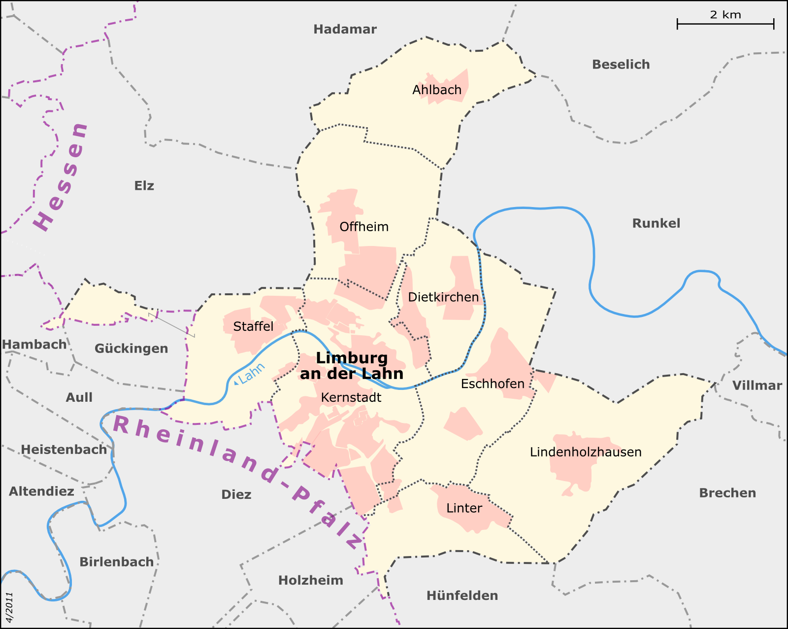 Map of Limburg an der Lahn's city districts